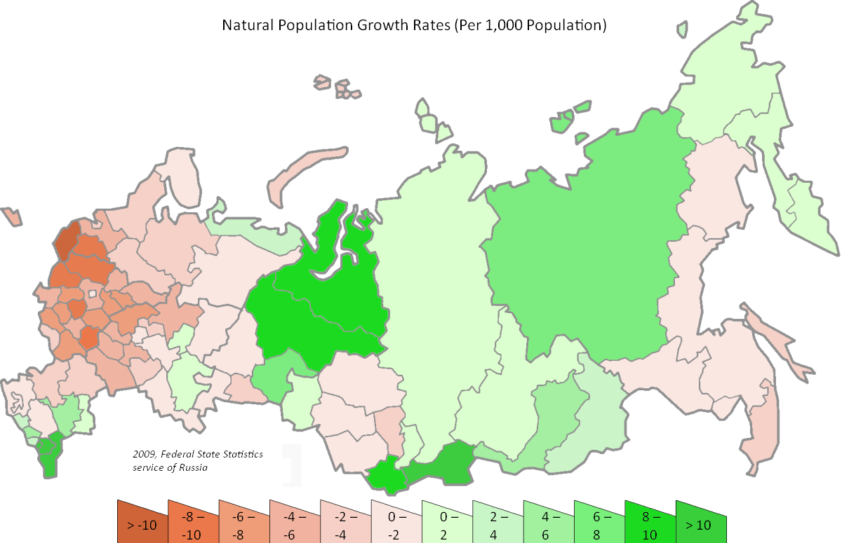 Natural population growth rates by region in 2009. Data according to the Federal State Statistics Service of Russia